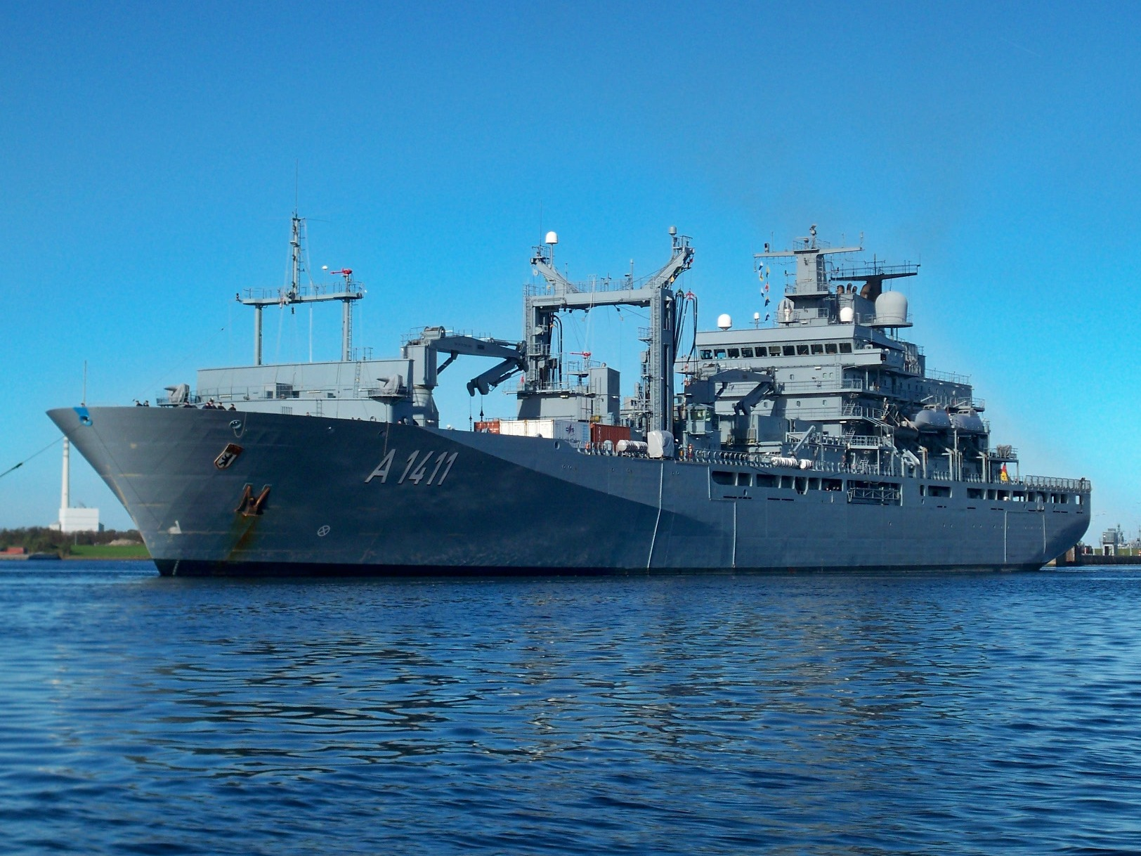 Combat store ship Berlin approaching the berth at Naval Base Wilhelmshaven